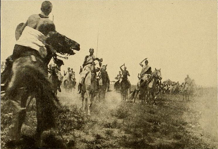 It appeared in Outing: Sport, Adventure, Travel, Fiction. volume 39. 1902. The title of the article is: Hartbeest Hunting on Toyo Plain. By D. G. Elliot.